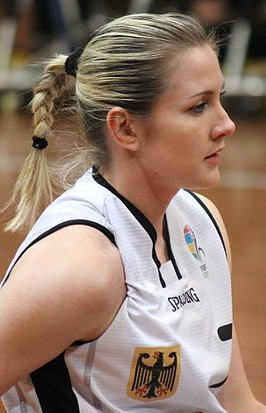 Edina Müller of the German women's national wheelchair basketball team